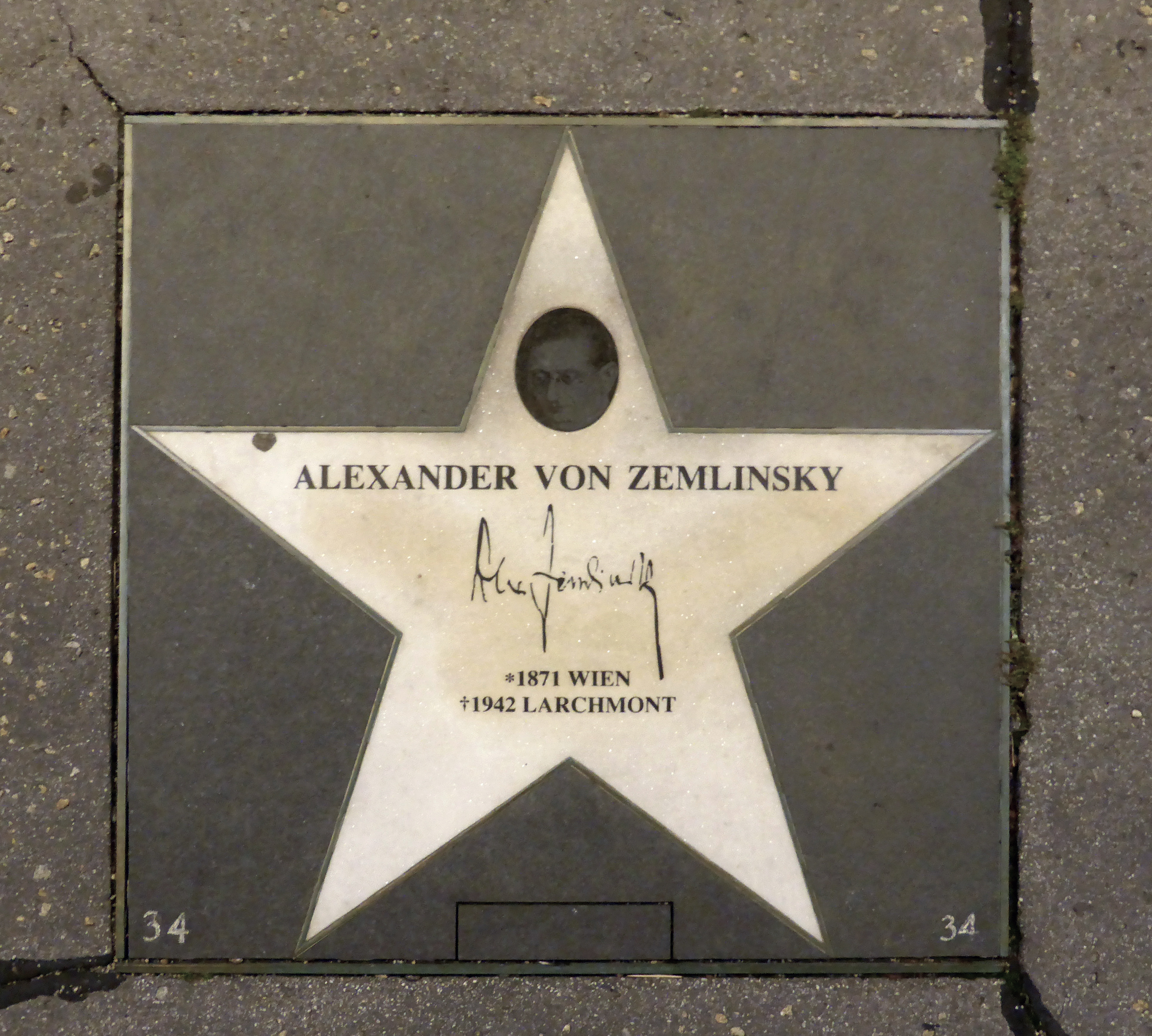 Walk of Fame Vienna Alexander von Zemlinsky, Vienna.